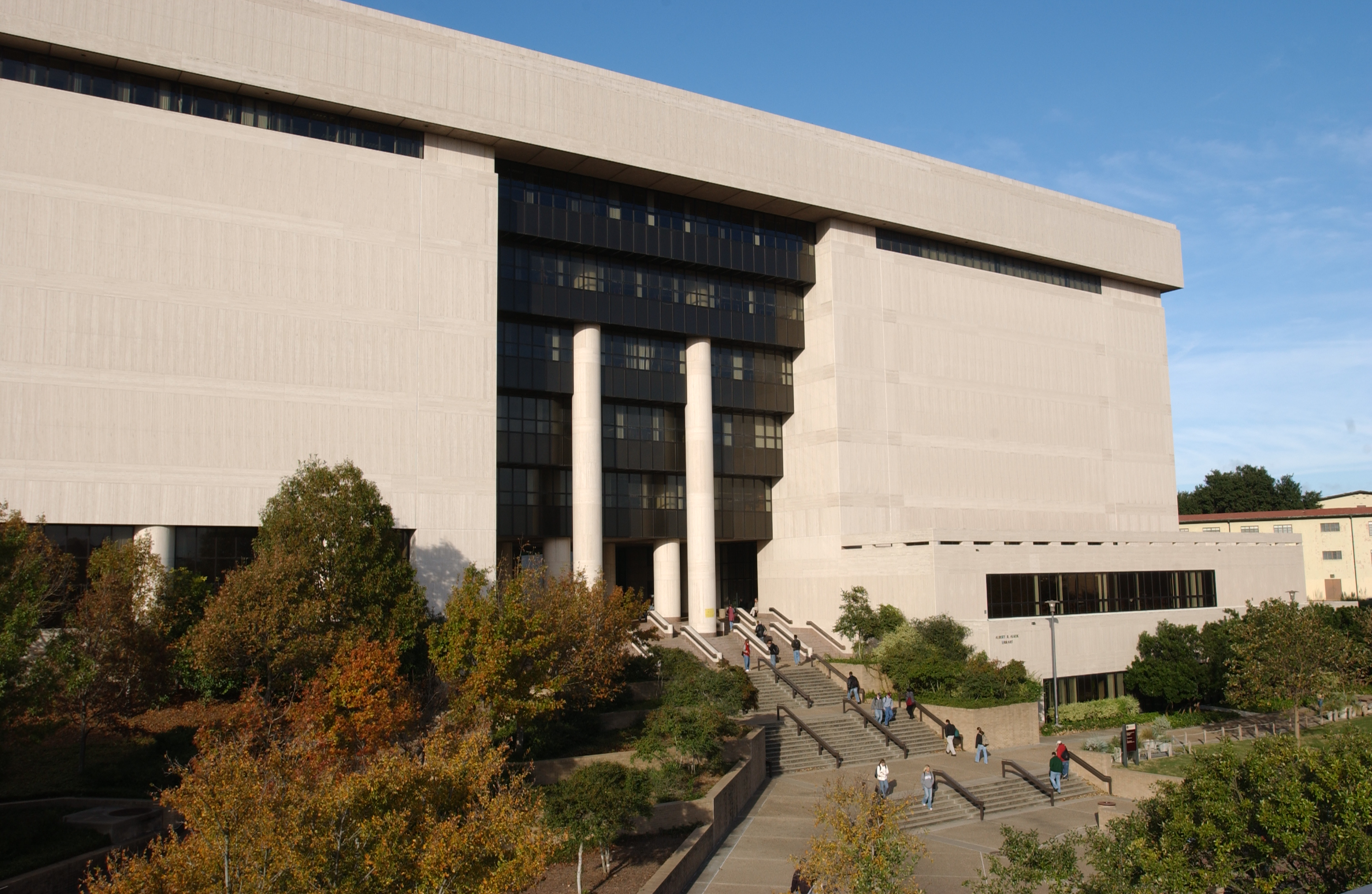 Alkek Library from the Quad.